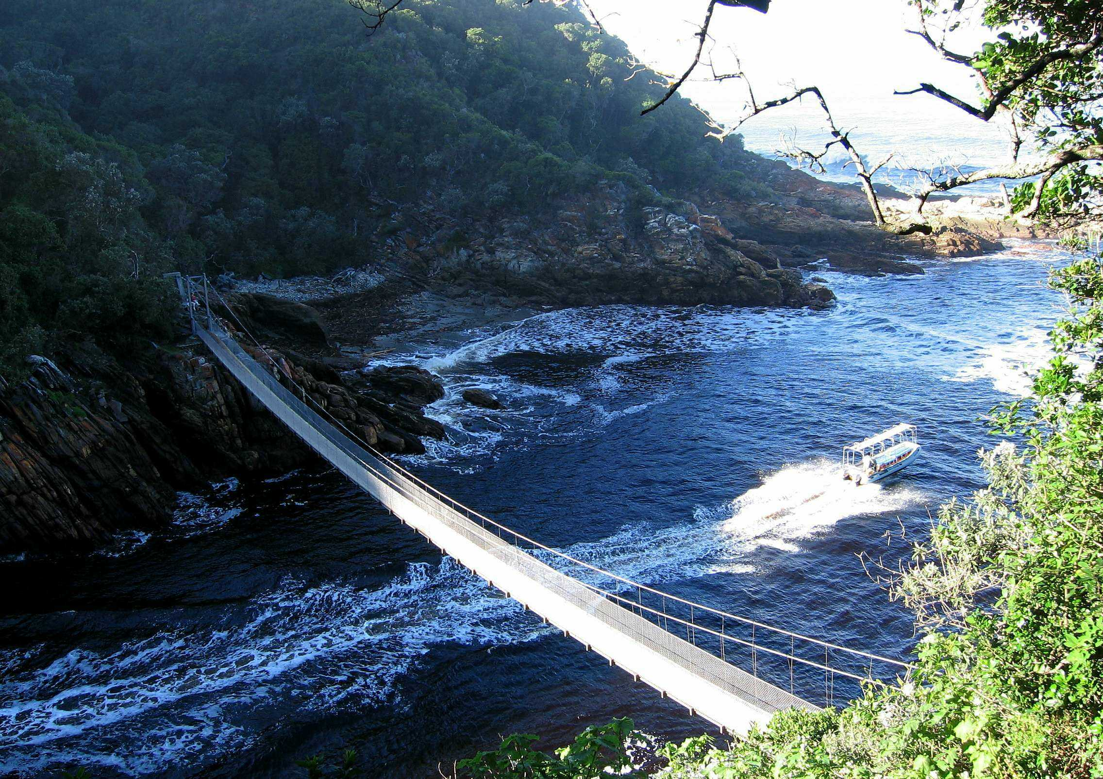 Suspension bridge over the Storms River, Tsitsikamma National Park, South Africa